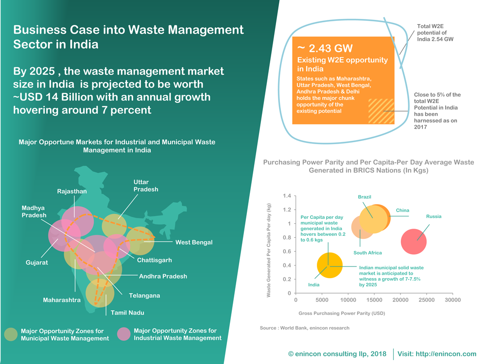 Business case into Waste Management in India